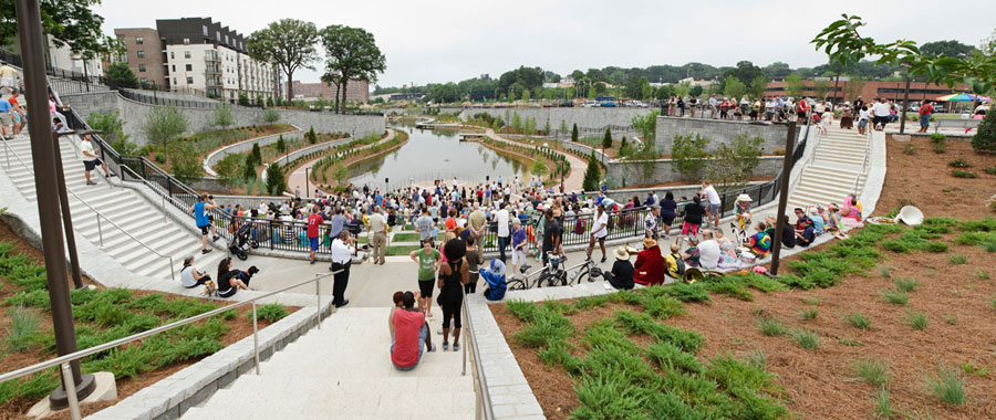 Pedestrians and bicyclists enjoy Atlanta, Georgia’s Historic Fourth Ward Park. The park and the connecting Eastside Trail are the Overall Excellence winners of EPA’s 2013 National Award for Smart Growth Achievement. The award is given annually for creative, sustainable initiatives that better protect the health and the environment of our communities while strengthening local economies. In 2013, EPA recognized innovative projects in seven communities. Image courtesy of Christopher T. Martin. Read more about the awards